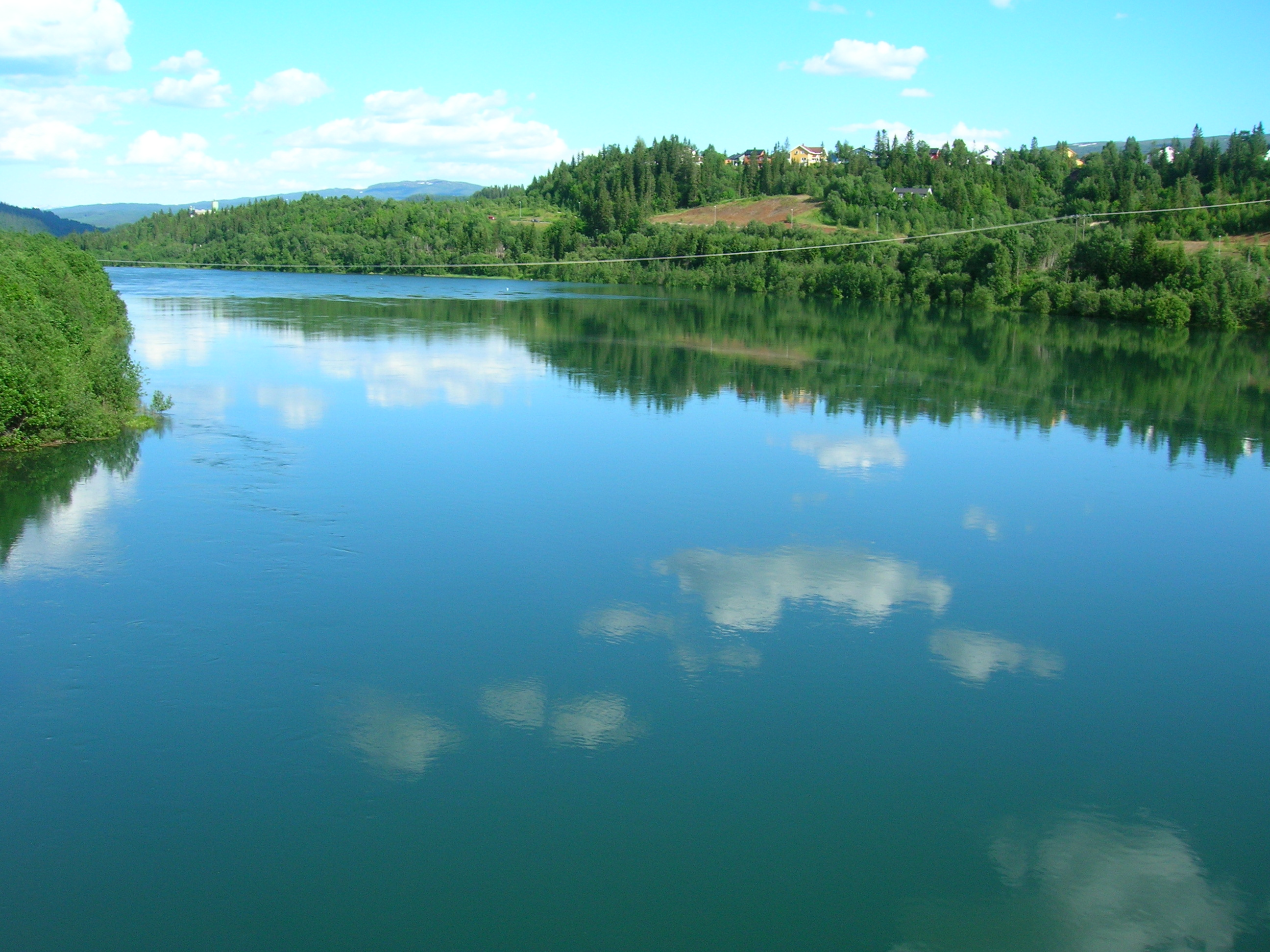 Ranelva seen from Selfors in Mo i Rana, Nordland, Norway. Photo July 4, 2007 with a Nikon Coolpix 5600 5,1 Megapixel camera.